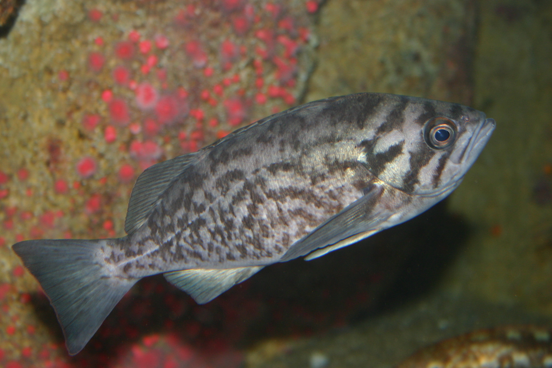 This blue rockfish (Sebastes mystinus) was photographed in the Monterey Bay Aquarium. Note the prominent diagonal bars extending back from the eye.